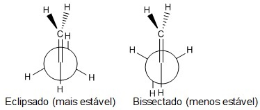 Conformações do ´propeno